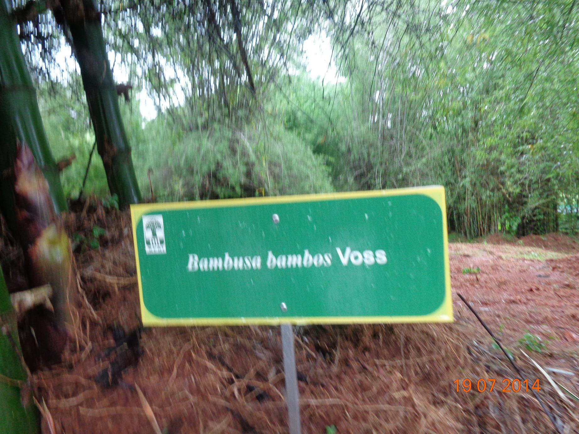 taken from kerlala forest research institure (KFRI) research station veluppadam, trichur kerala, india. board fixed near the perticular bamboo tree